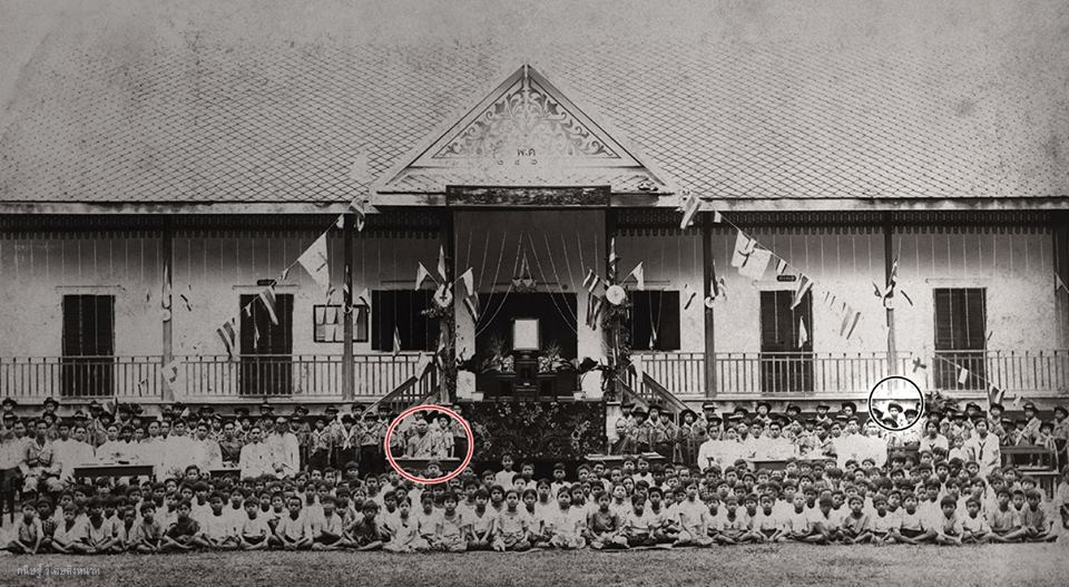 visuttharangsi school and somdej phrasangharaja of thailand